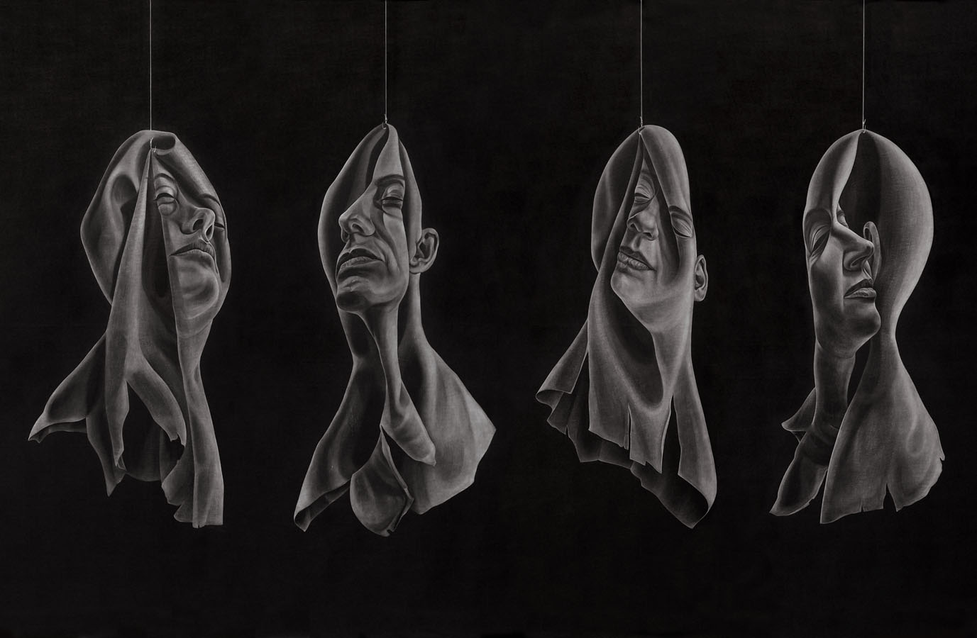 "Untitled (science fiction)", 2007, 4 oil on synthetic leather, Marina Núñez